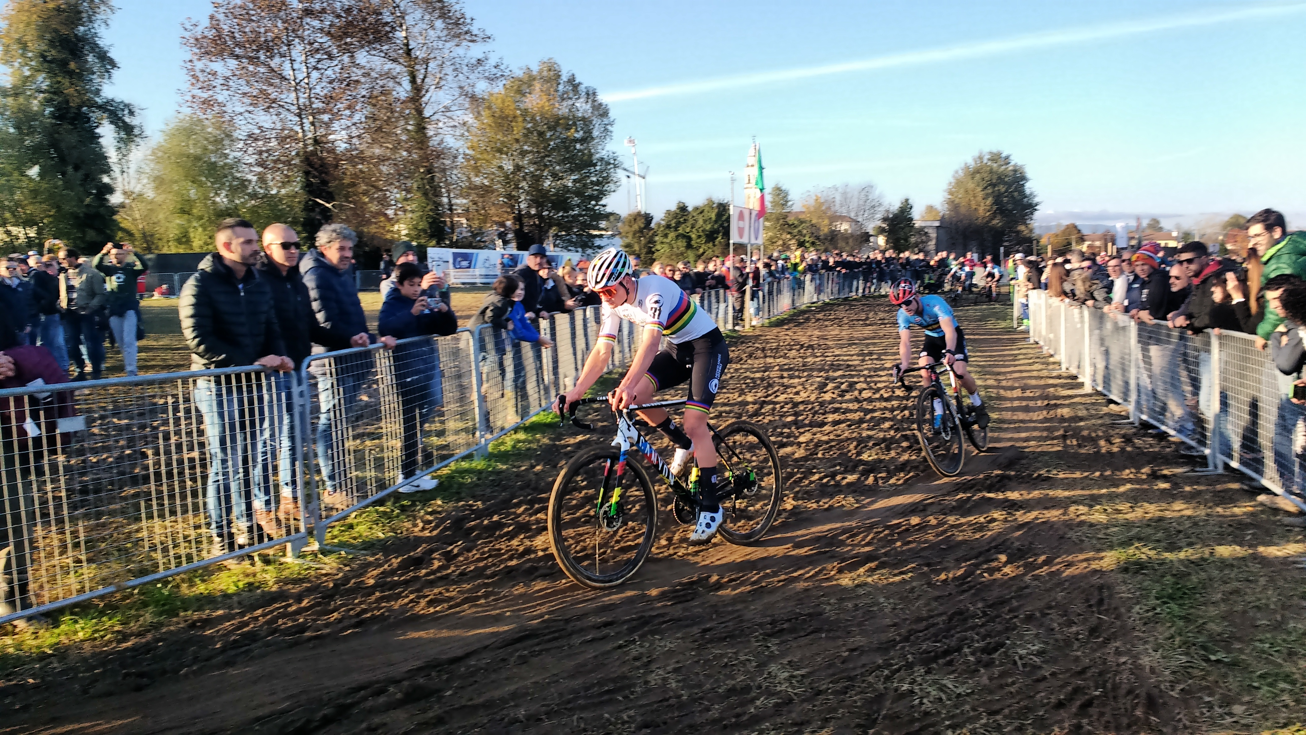 UEC European Cyclo-cross Championships, Elite 2019, Silvelle, November, 10 2019